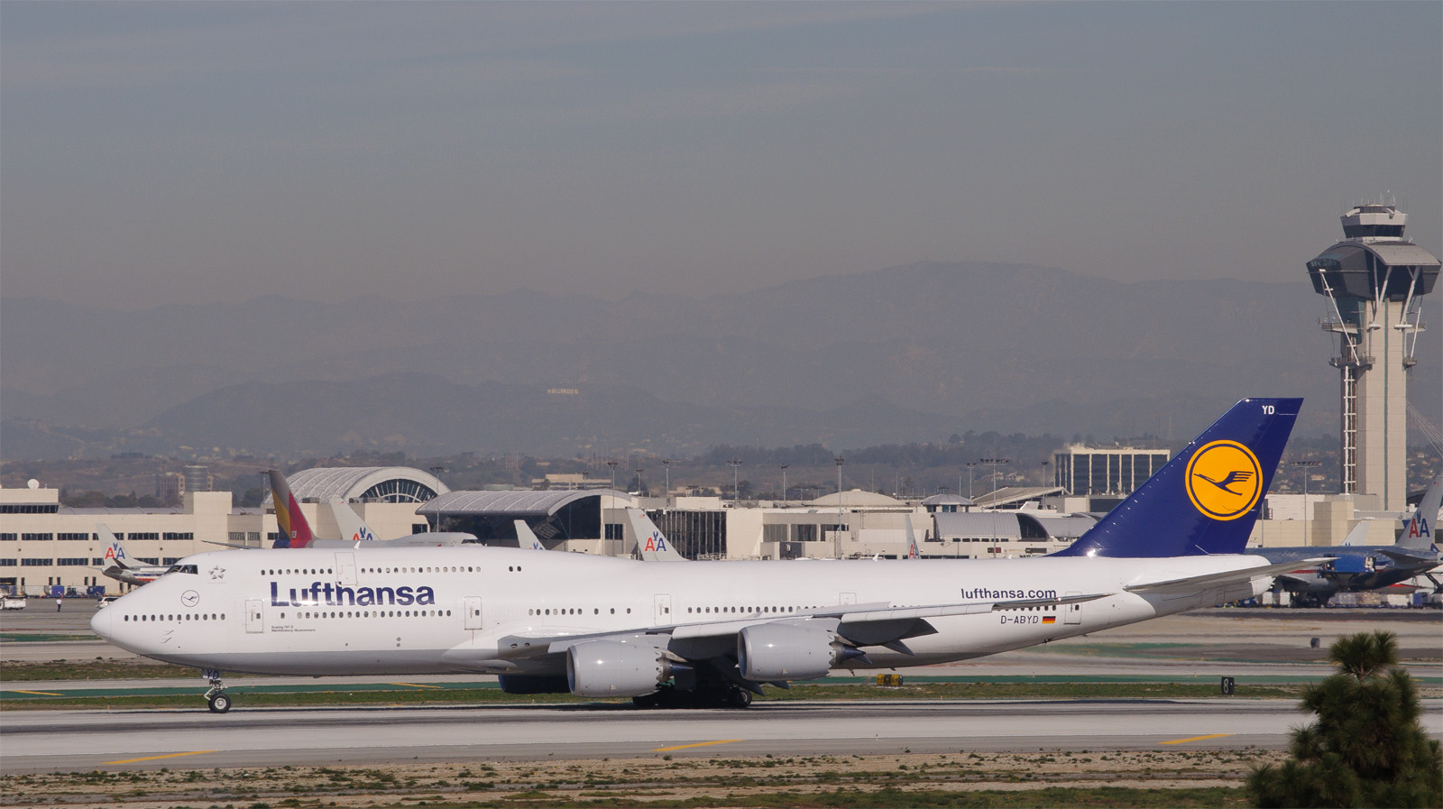 Some planespotting for the very first weekend of 2013 - in anticipation of seeing the new United 787 services to/from Tokyo. (And I was far from alone - plenty of hardcore planespotters, all of male middle-aged persuasion except for yours truly.) Lufthansa 456 arrives from Frankfurt. Since 10 December 2012, this flight, formerly run with the Boeing 747-400, has been upgraded to the new Boeing 747-8 Intercontinental. Lufthansa is the only major operator of the passenger 747-8. This particular example was delivered in August 2012, so chances are it may have been one of the 747-8s I saw sitting at Boeing's Everett factory in July. The registration D-ABYD was previously used in 1971 on a 747-200B. It was eventually sold to Korean Air in 1979, and to a leasing company in 1991. D-ABYD "Mecklenburg-Vorpommern," Boeing 747-8I